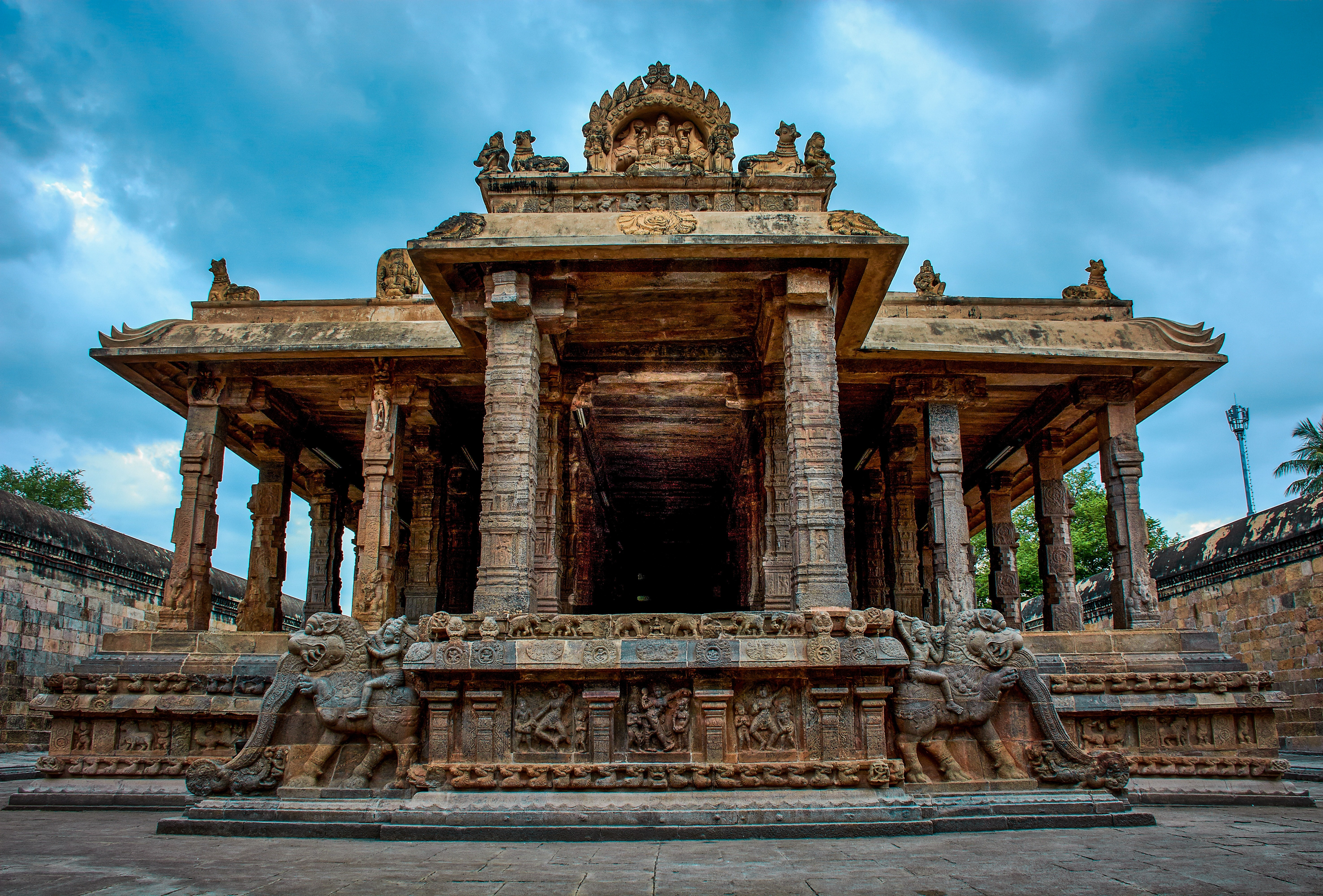 Airavatesvara Temple -Amman Shrine At Darasuram Kumbakonam